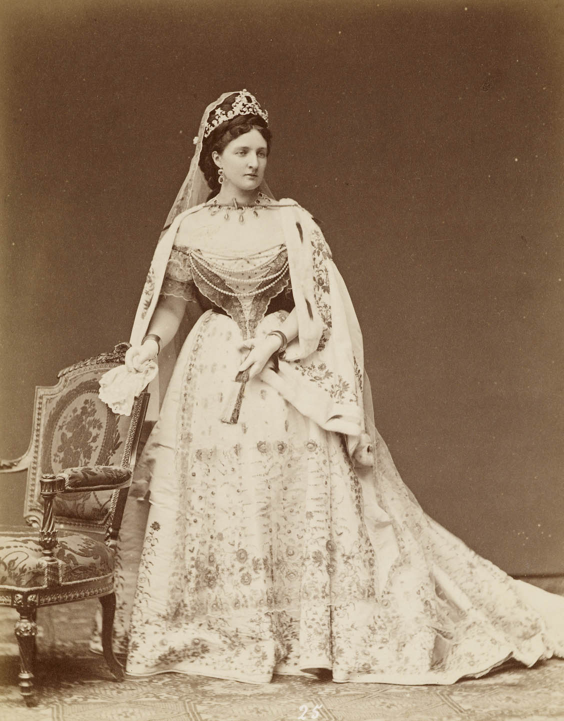 Archduchess Clotilde of Austria, Princess of Bohemia and Hungary (1846–1927), née Princess of Saxe-Coburg-Gotha. Owned by The Royal Collection.